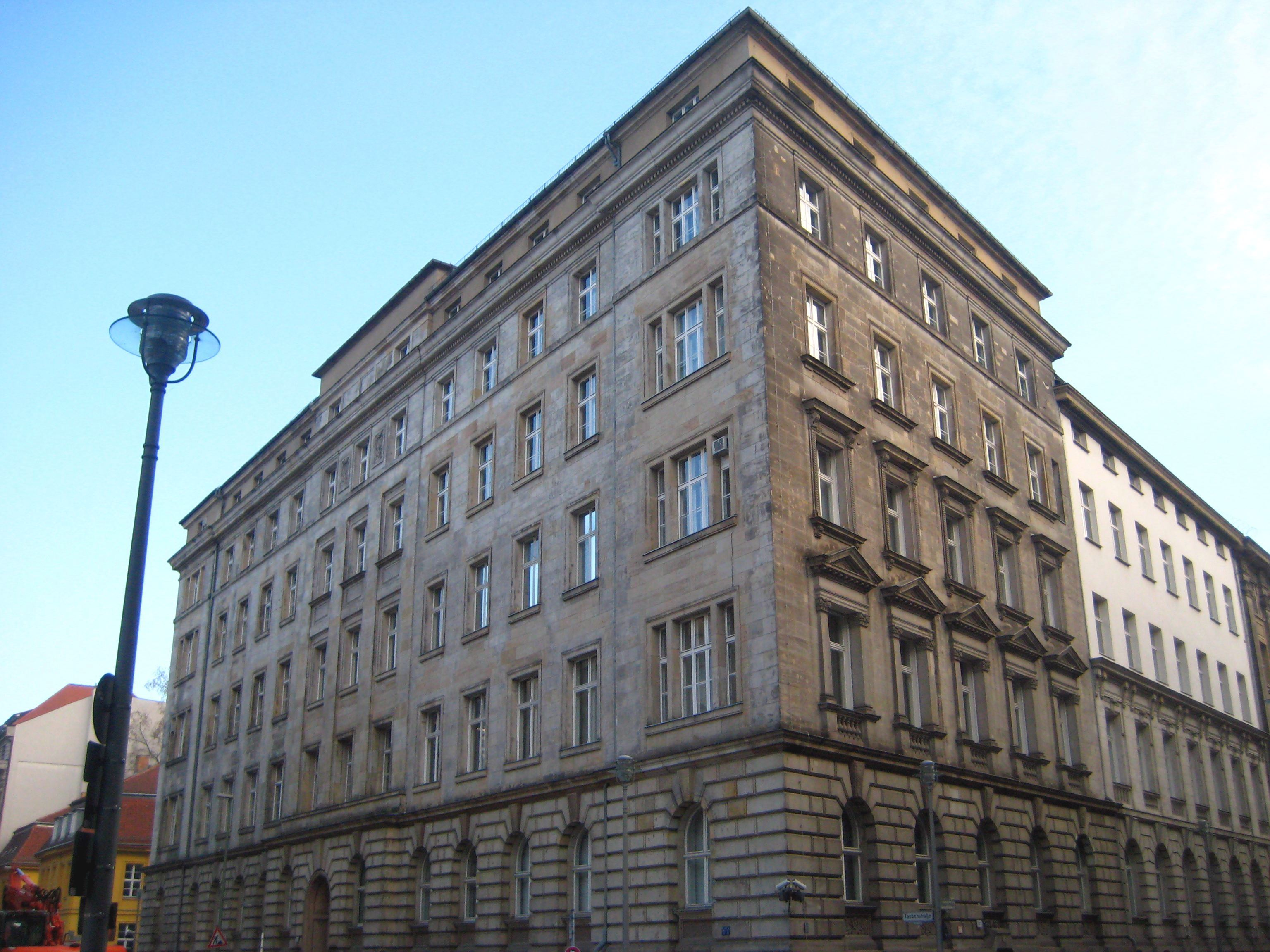 Former main administration building of the Allianz-Versicherung ("Allianz-Versichungs-Generaldirektion") in Berlin-Mitte, corner of Mauerstraße and Taubenstraße, built 1896-1897.